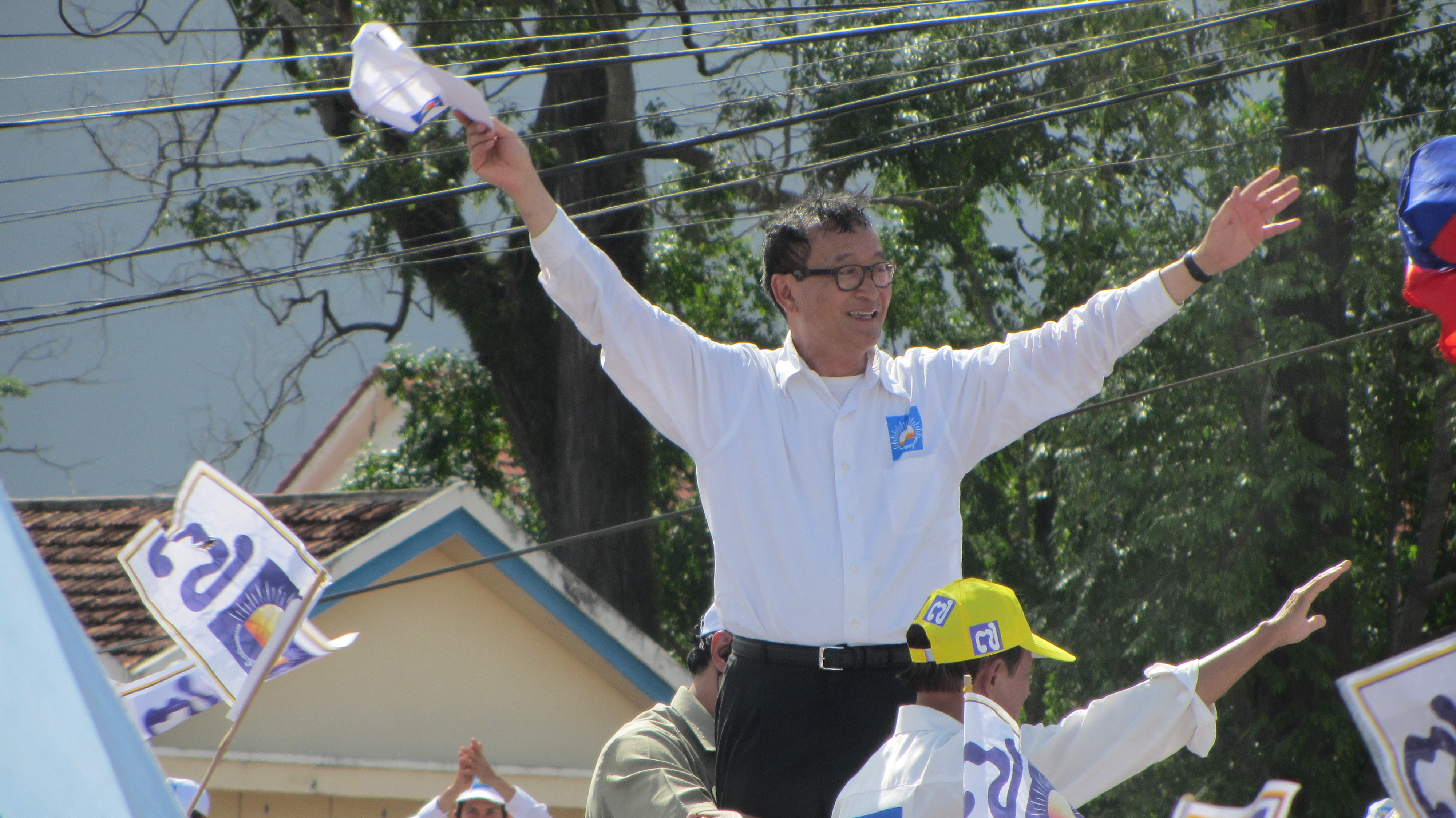 Opposition leader Sam Rainsy has submitted a request to the National Assembly to have his parliamentary immunity restored.